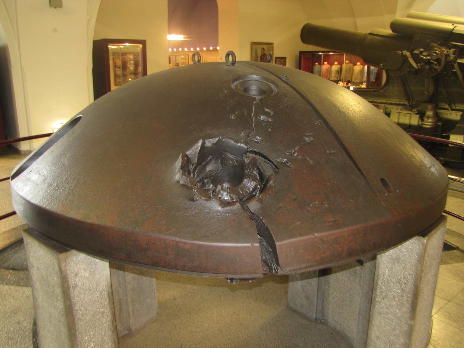 Destroyed Howitzer turret cupola of the fortress Antwerp. Hit 1914 by an Austria-Hungarian 30,5 cm shell